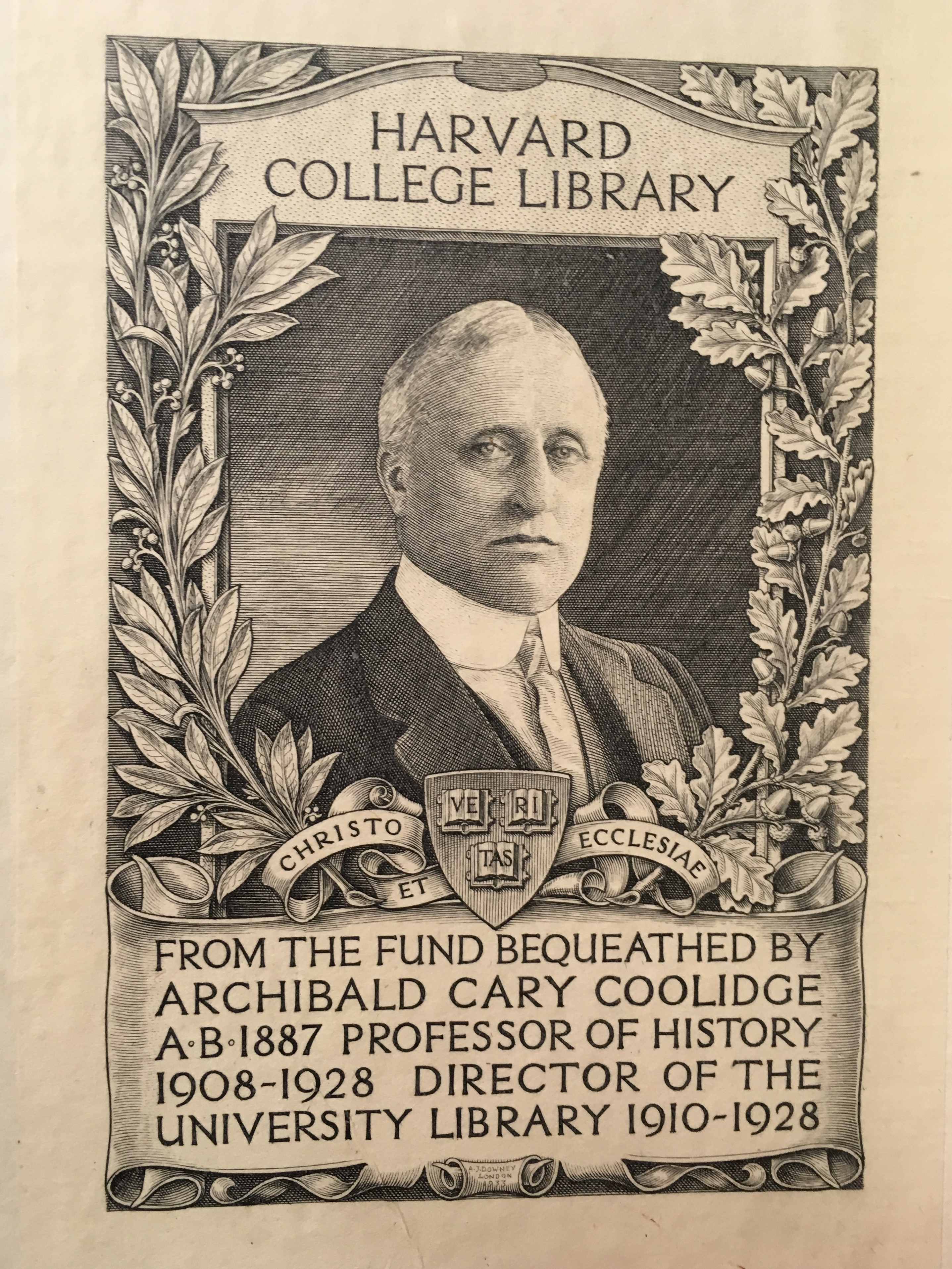 A bookplate with Archibald Cary Coolidge's image on it. Wording: "Harvard College Library from the fund bequeathed by Archibald Cary Coolidge AB 1887 Professor of history 1902-1928 Director of the University Library 1910-1928"